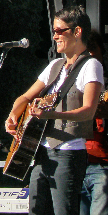 Musician Michelle Shocked. 10/06/2007.